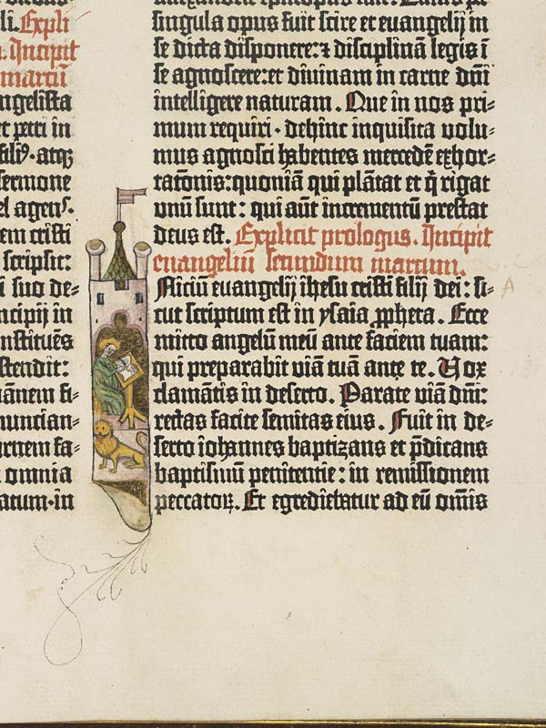 The Gutenberg Bible, digitised by the HUMI Project, Keio University, July 2005; © National Library of Scotland The Gutenberg Bible was the first book printed with moveable type. Printed in Mainz, Germany, around 1455 by Johannes Gutenberg, the inventor of printing, and Johannes Fust. One of around only 20 complete copies to survive out of the original 180. Two volumes. Also known as The 42-line Bible or The Mazarine Bible. Page from the New Testament - Gospel according to Mark, contains handwritten red rubrics. Decorated initial M; historiated initial I depicting the evangelist St Mark writing the Gospel of Mark; St Mark's symbol is a lion. Marginalia visible but faded through washing.